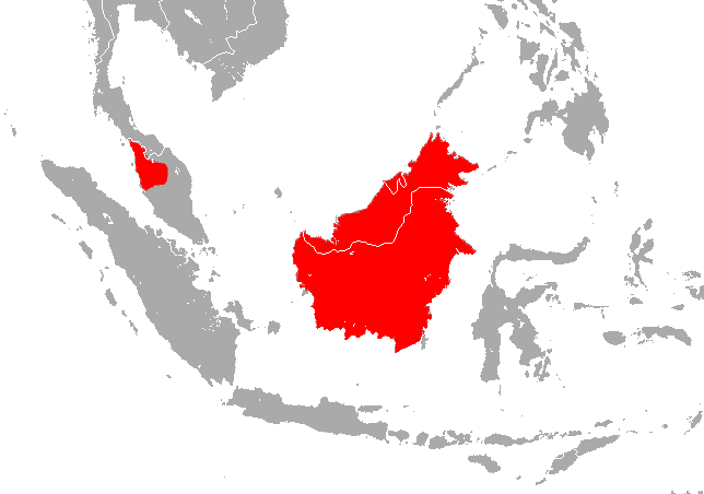 Dayak Roundleaf Bat (Hipposideros dyacorum) range